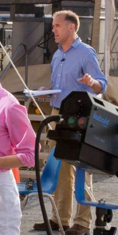 BBC News correspondant Jonathan Beale broadcasting live from Camp Justice during the military commissions hearings, July 19, 2009. – JTF Guantanamo photo by Army Spc. David McLean cropped from File:Reporting on Guantanamo.jpg